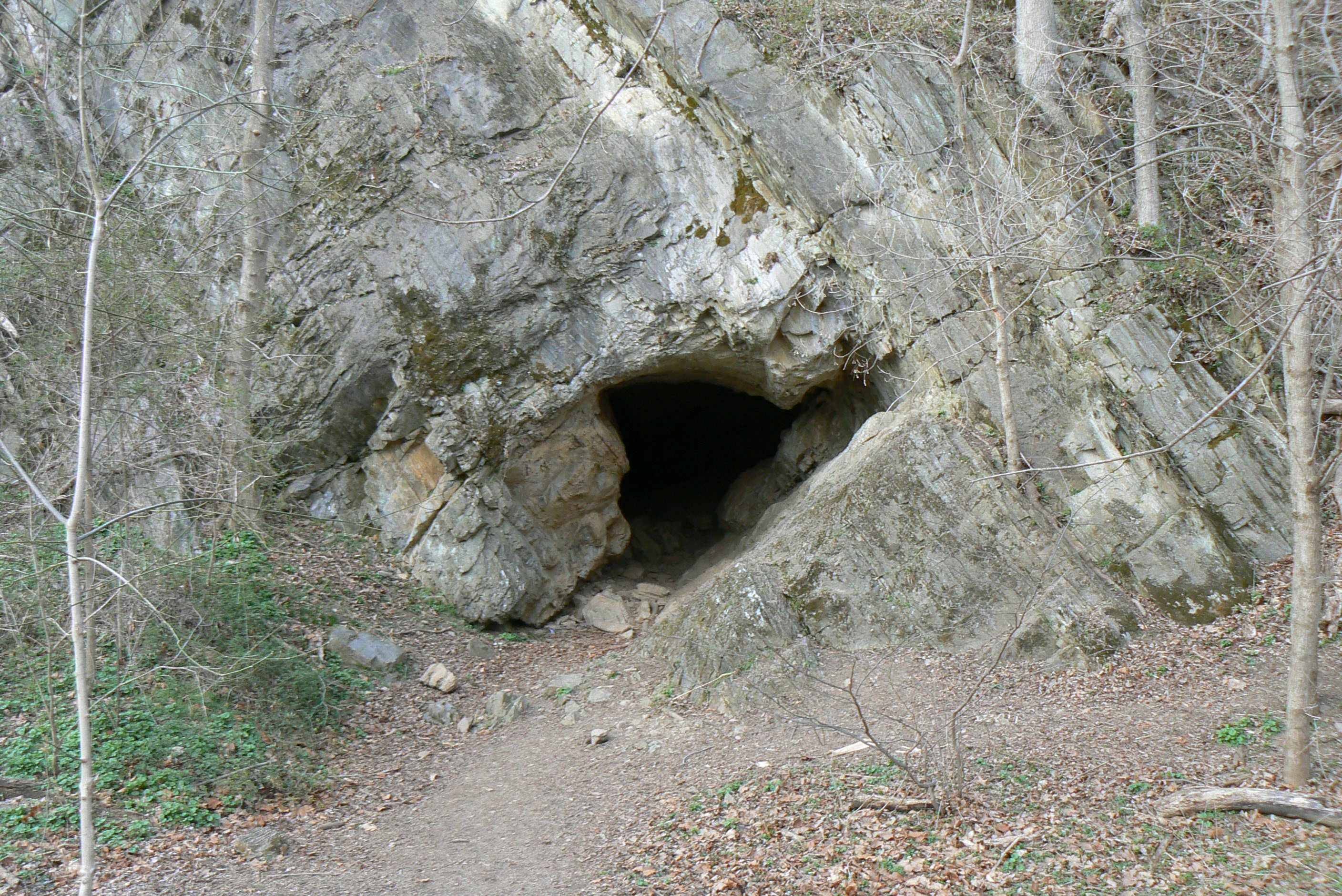 Entrance to Dam #4 Cave. The C&O bed can be seen just outside the cave's mouth.